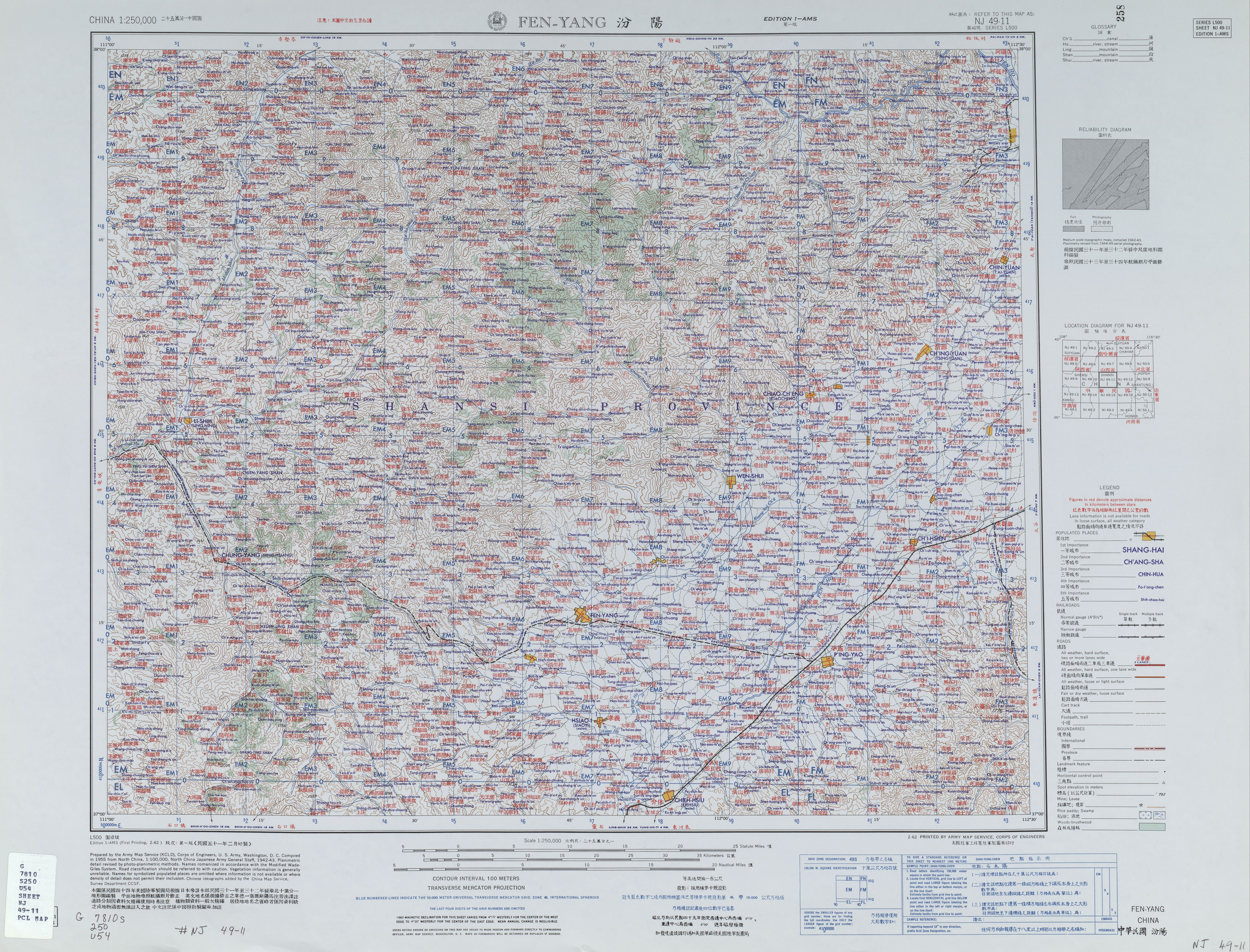 China AMS Topographic Maps